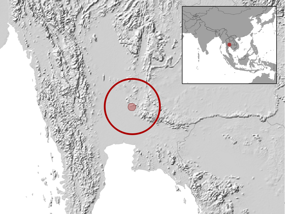 geographic distribution of Lygosoma frontoparietale